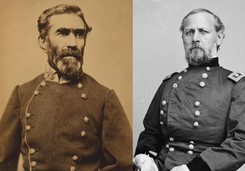 Two juxtaposed commanders of the Confederate Heartland Offensive.